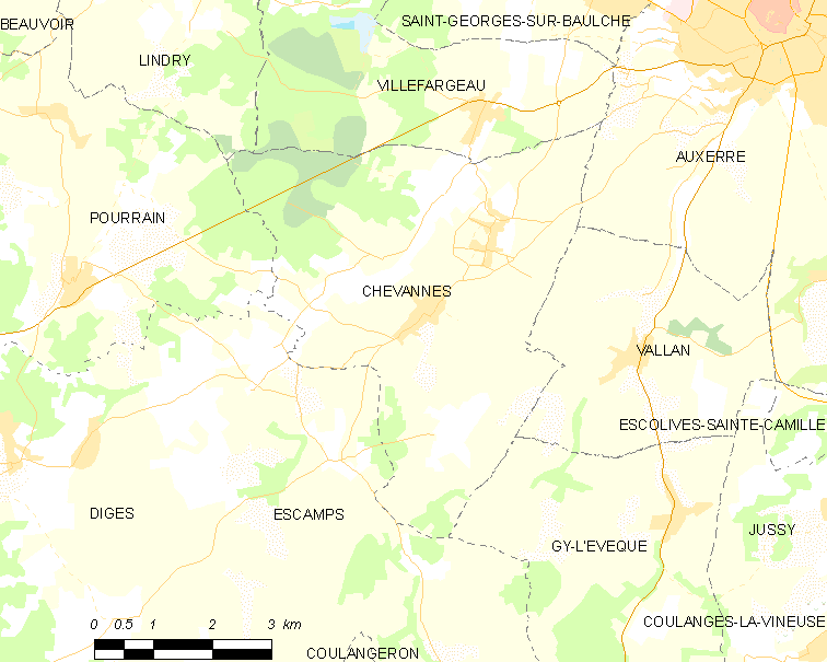 Map of French municipality Chevannes